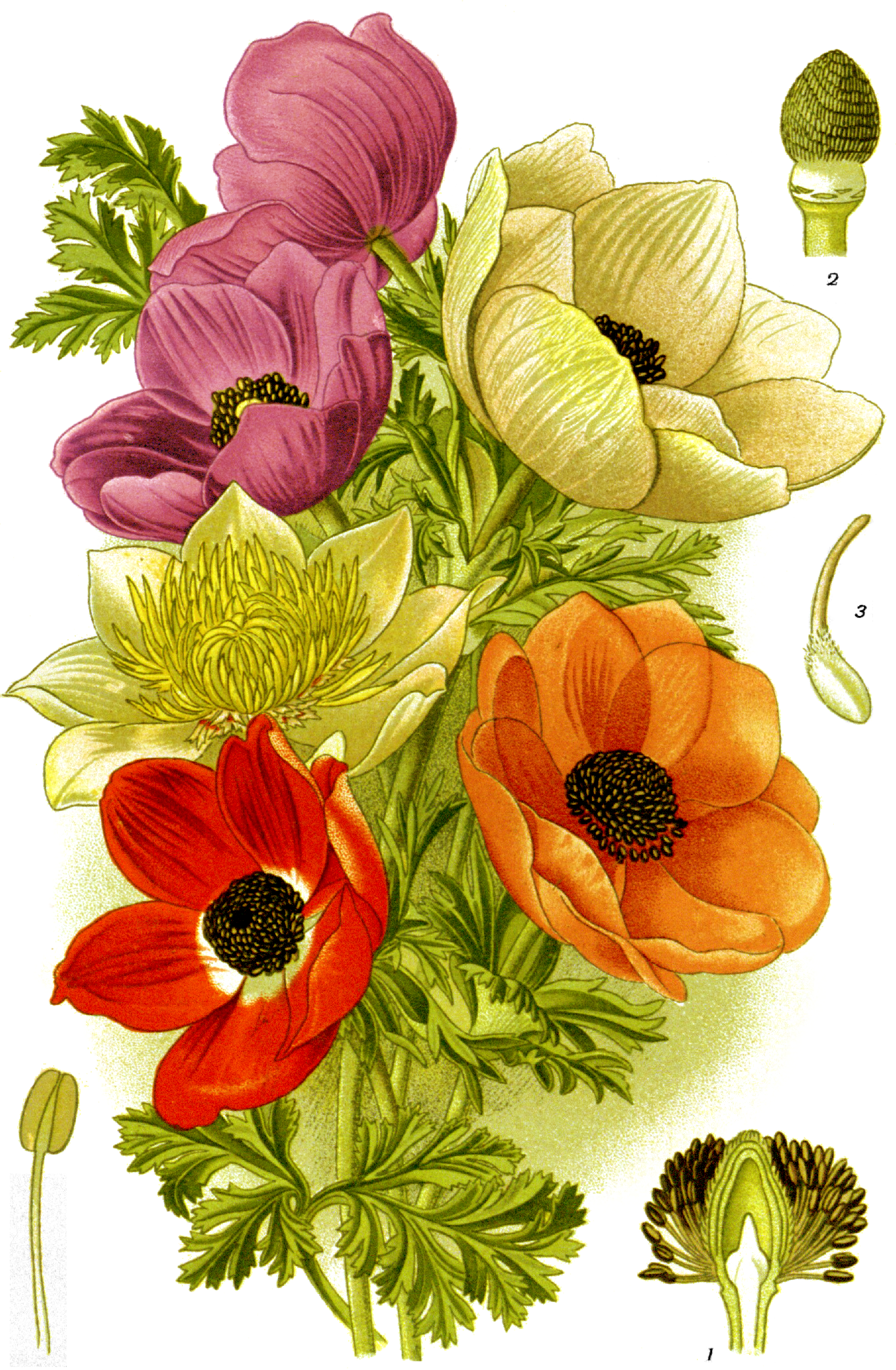 Poppy Anemone, Anemone coronaria, Plate 3, Favourite flowers of garden and greenhouse , Vol. 1